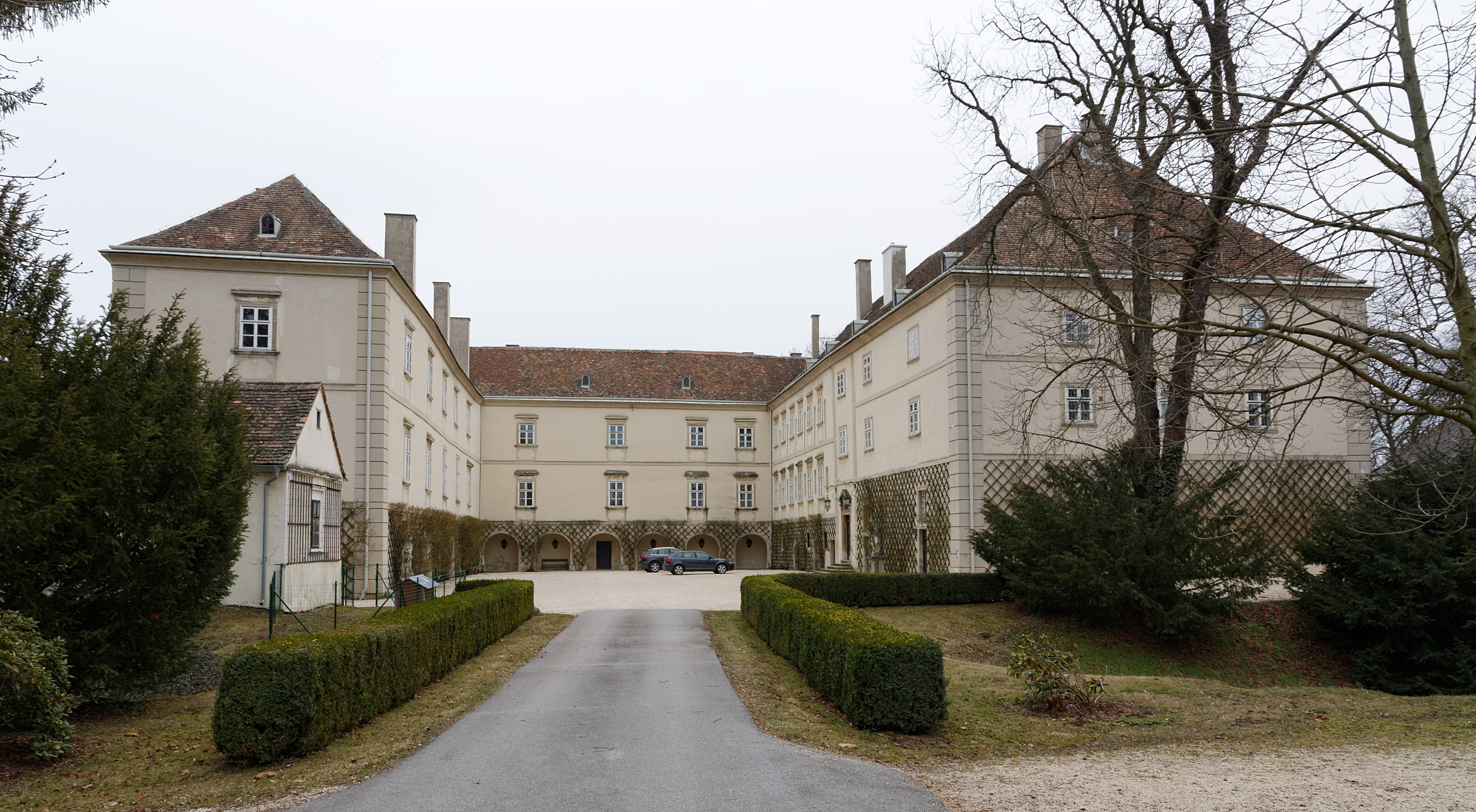 Palace at Ulrichskirchen, Municipality Ulrichskirchen-Schleinbach, Lower Austria, Austria